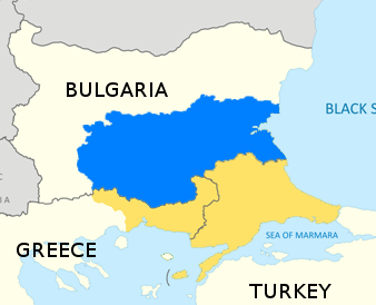 Northern (Bulgarian) part of Thrace within its entirety.